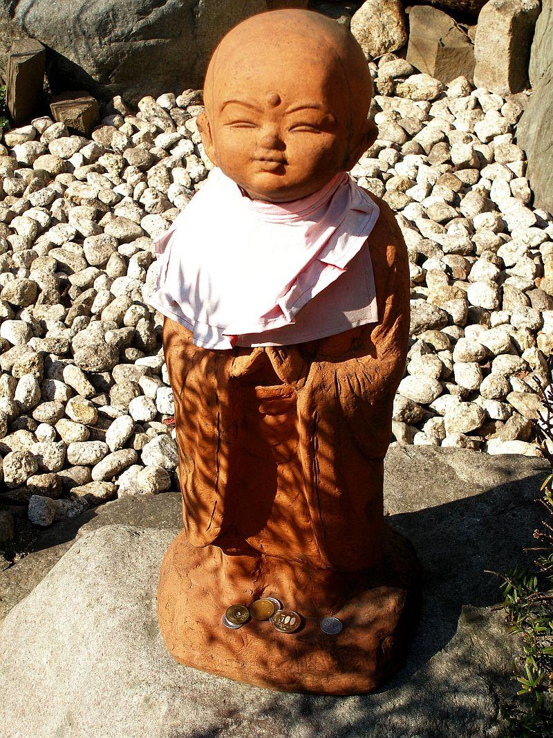 Jizo is a guardian of little children.